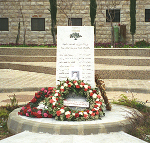 Martyr's Memorial, Birzeit University Campus, West Bank, Palestine. Photo taken by Michael A. O'Neill in 1997. Wreaths and small photo were placed in memoriam of a 20-year-old Birzeit University student, Abdullah Khalil Salah, on 29 March 1997.